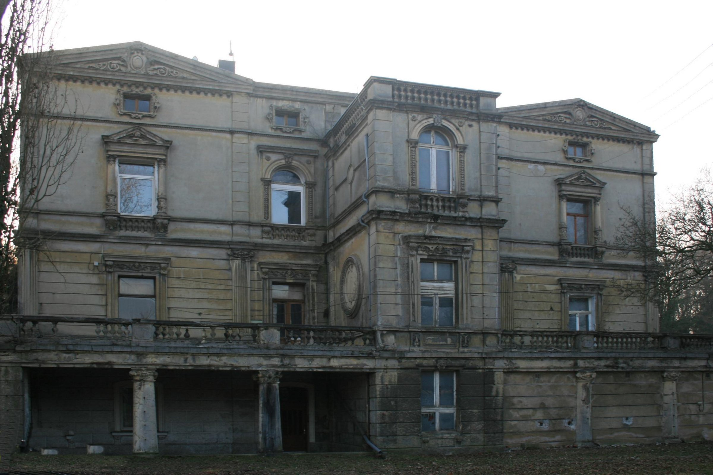 Cultural heritage monument No. 57 in Jülich